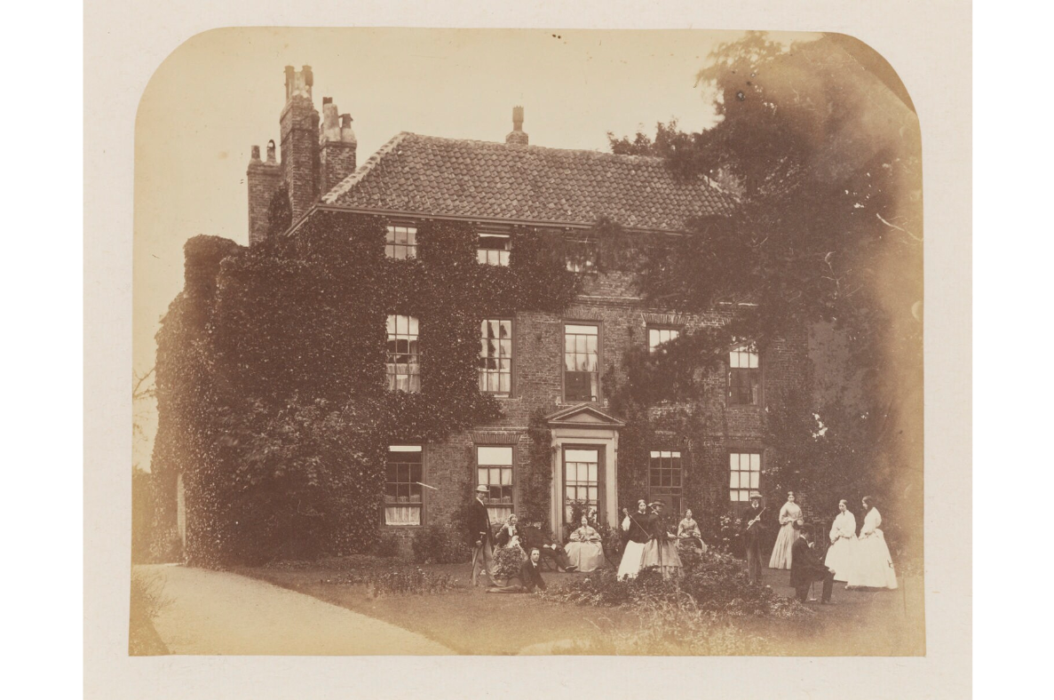 Lewis Carroll and his family at Croft Rectory probably by Robert Wilfred Skeffington Lutwidge albumen print, circa 1858-1862 6 7/8 in. x 8 5/8 in. (175 mm x 219 mm) Purchased, 1977 NPG P32 sbírka © National Portrait Gallery, London Place made and portrayed: United Kingdom: England, Yorkshire (Carroll's home, Croft Rectory, Croft-on-Tees, North Yorkshire)